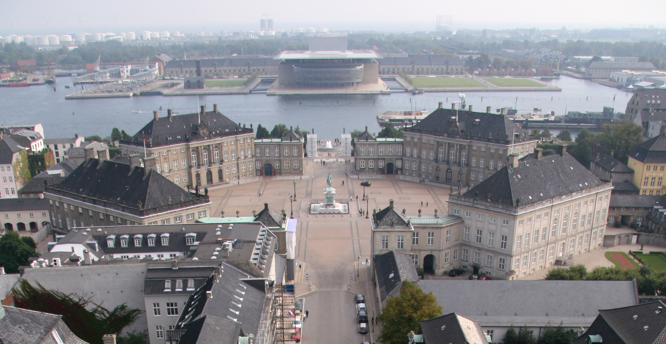 Amalienborg, Copenhagen, Denmark Viewed from the top af Frederik's Church (The Marble Church).